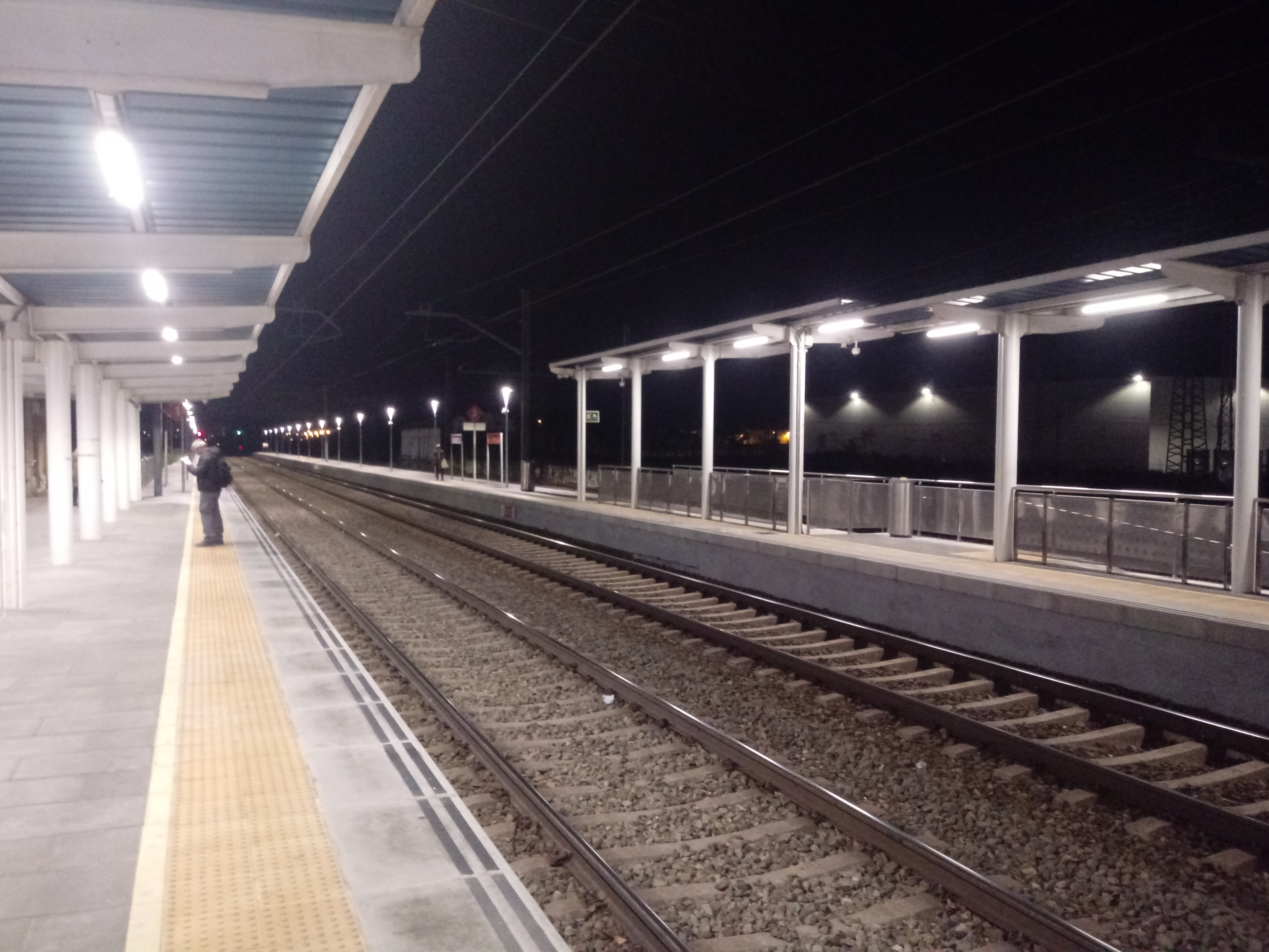 Meco station of the Cercanías Madrid network